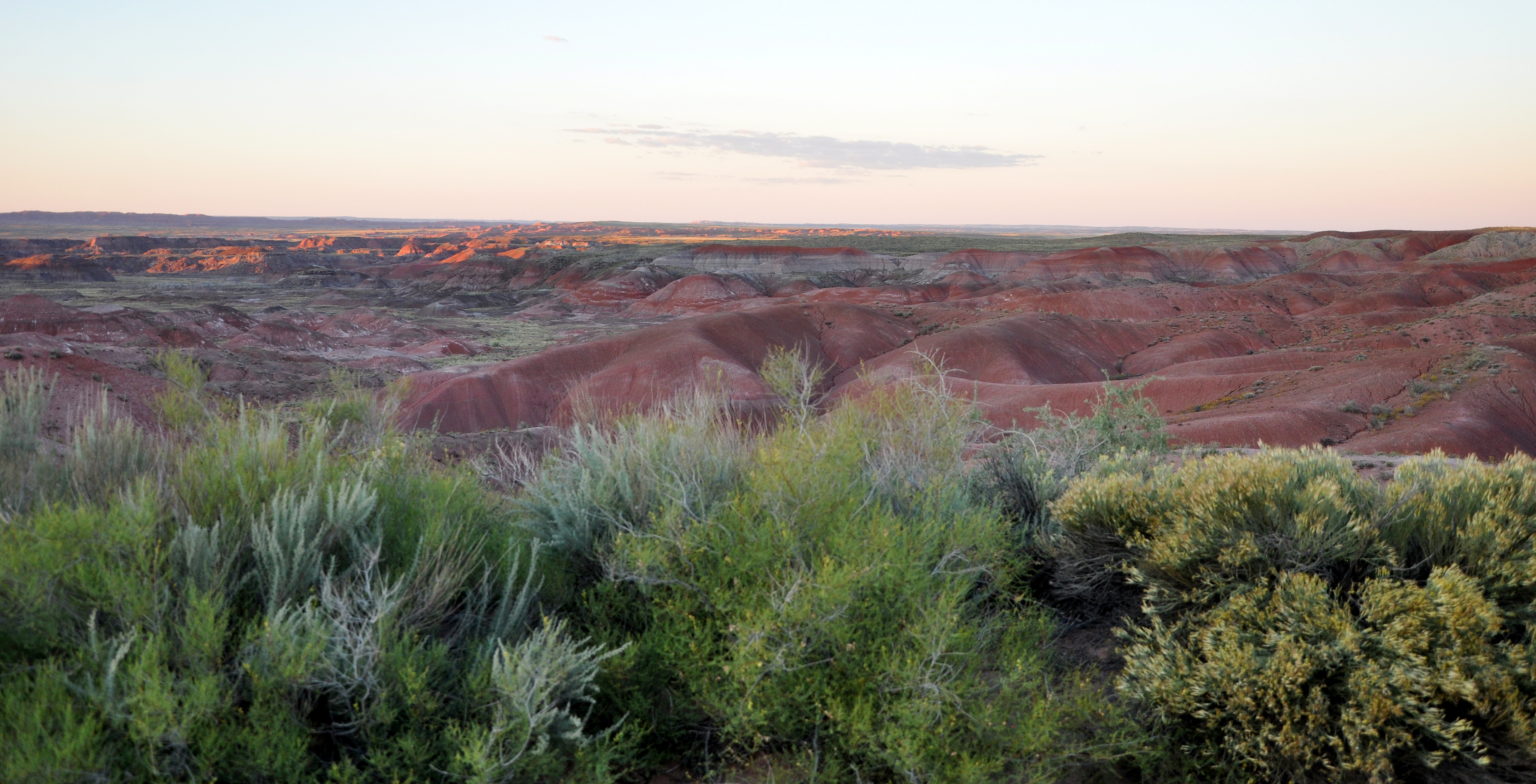 View of Painted Desert badlands from Tiponi Point in Petrified Forest National Park in northeastern Arizona, United States